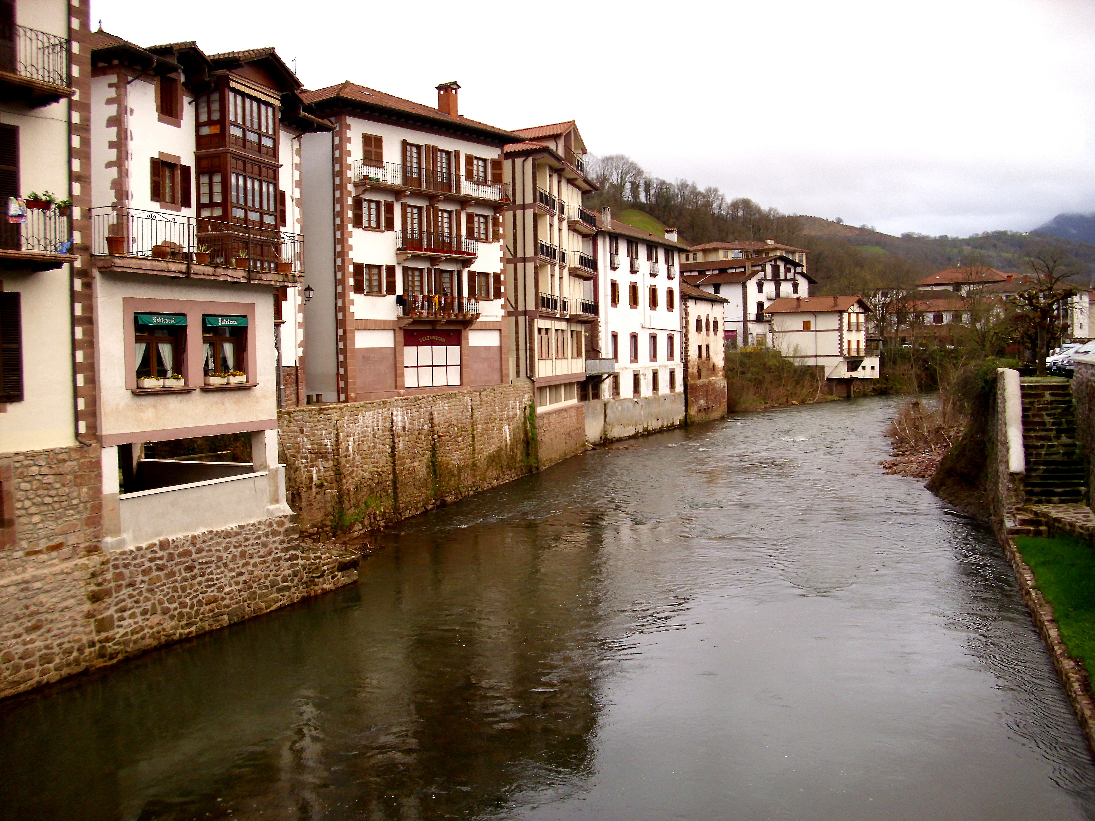 Río Baztan y Regata Artesiaga, Baztan river in Elizondo city This is a photography of a Special Area of Conservation in Spain with the ID: ES2200023. Natura2000 entry, EEA entry